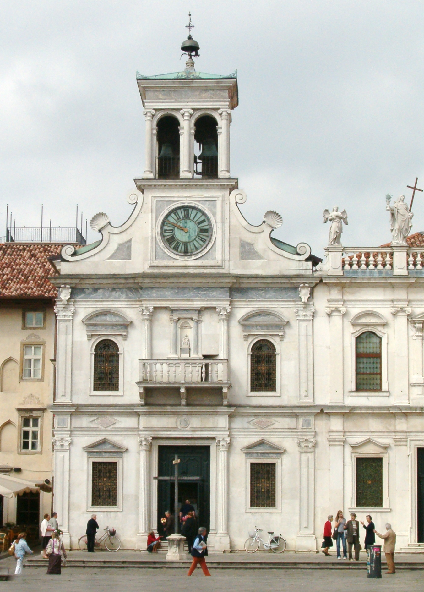 Udine, Italy